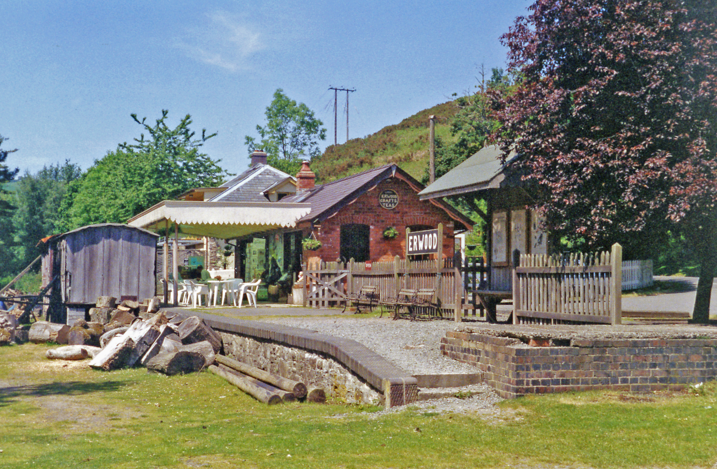 Former station at Erwood, 1994. View NW, towards Builth Wells and Moat Lane: ex-Cambrian Railway Moat Lane - Brecon (Mid-Wales) line, closed completely 31/12/62. This is an unusual transformation of a former station into a café, on the main road down the Wye Valley.